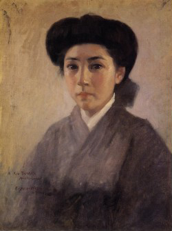 Portrait of a Girl (Yokoyama Michiko), by Wada Eisaku, Onomichi City Museum of Art, Onomichi, Hiroshima, Japan